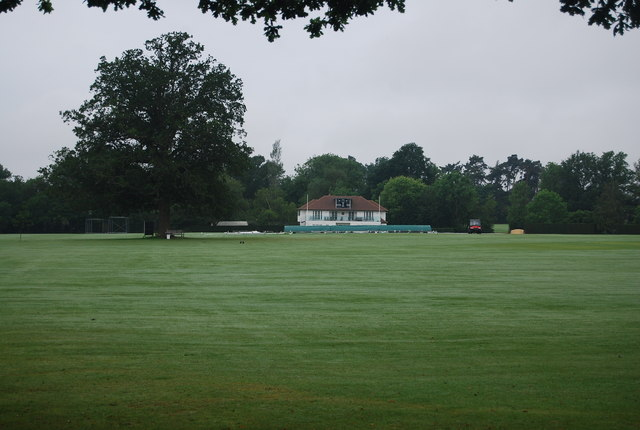 Cranleigh School Cricket Pavilion